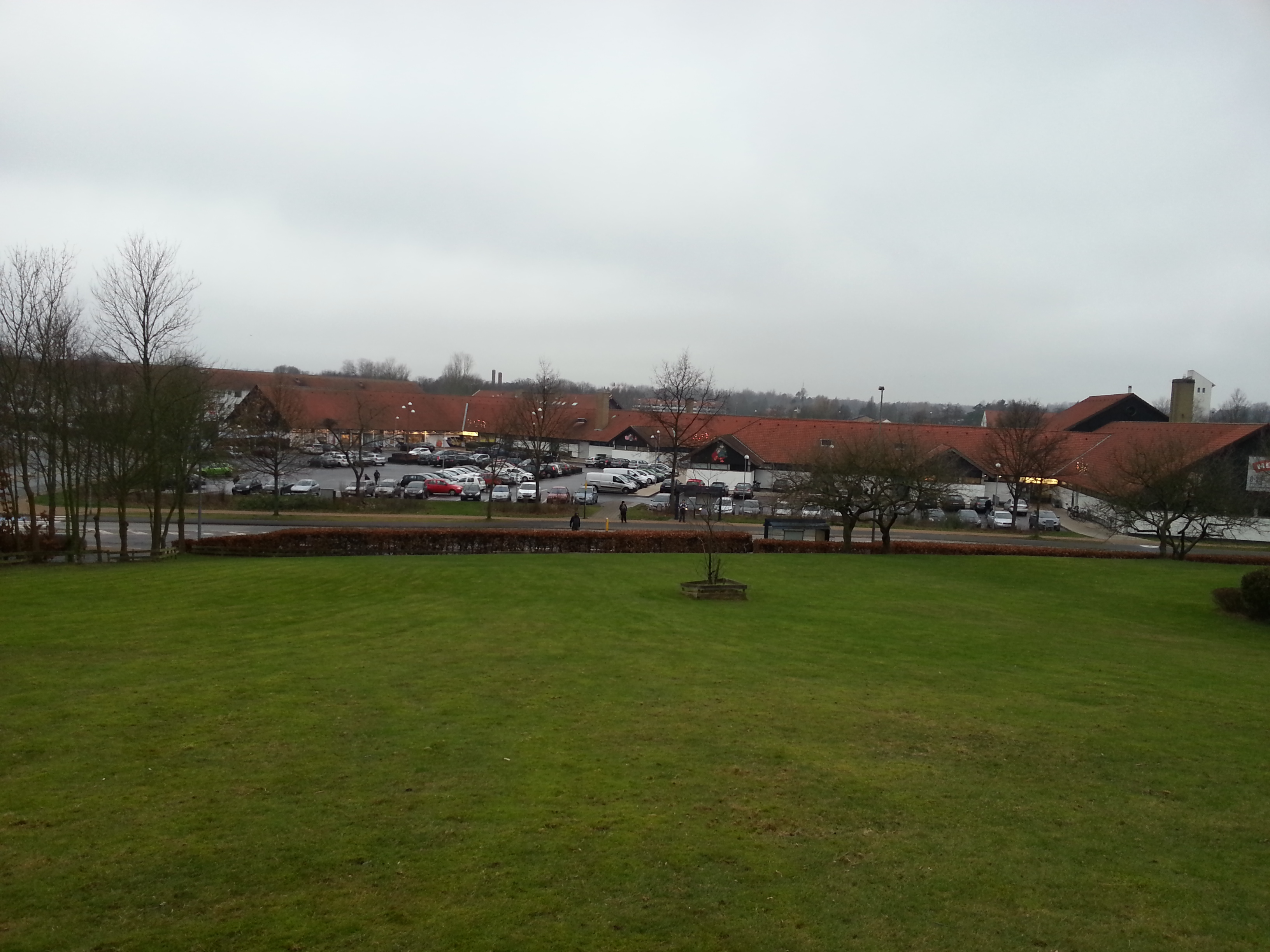 Espergærde Centret 16.12.2015 - 3